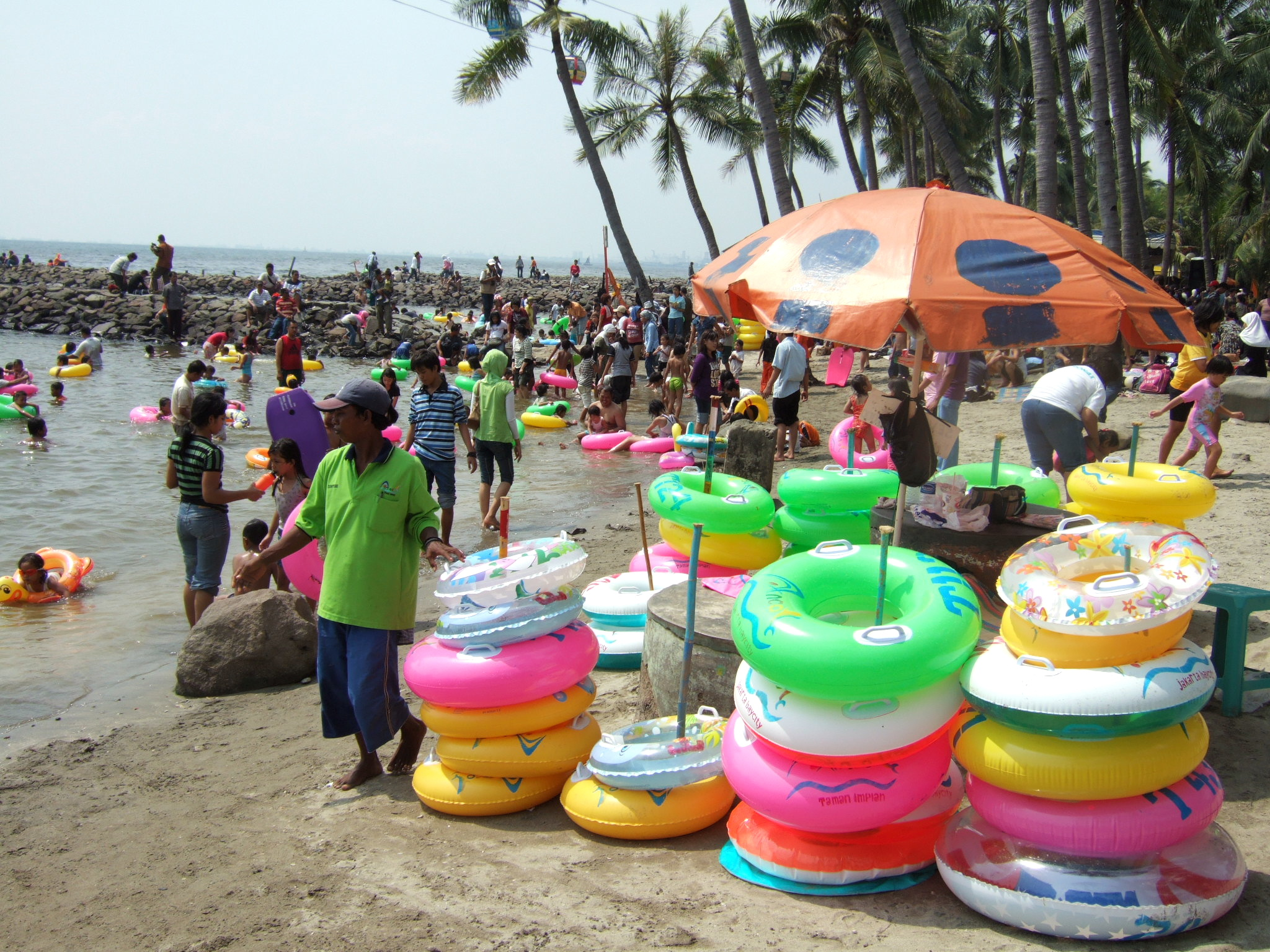 Inflatable tubes at Festival Beach, Ancol Jakarta Bay City, Indonesia